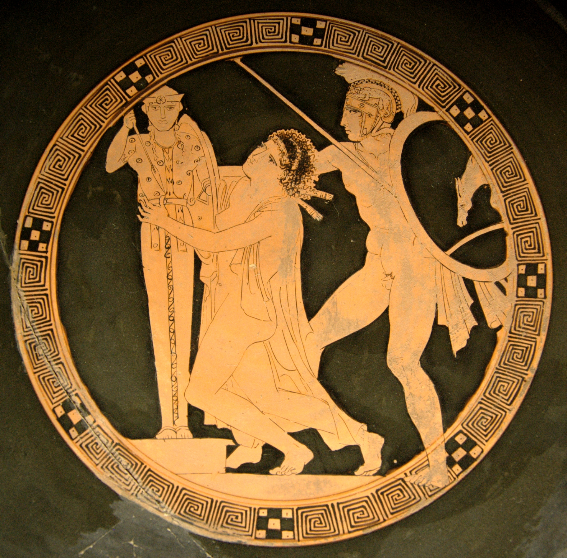 Ajax the Lesser raping Cassandra. Tondo of an Attic red-figure cup, ca. 440-430 BC.